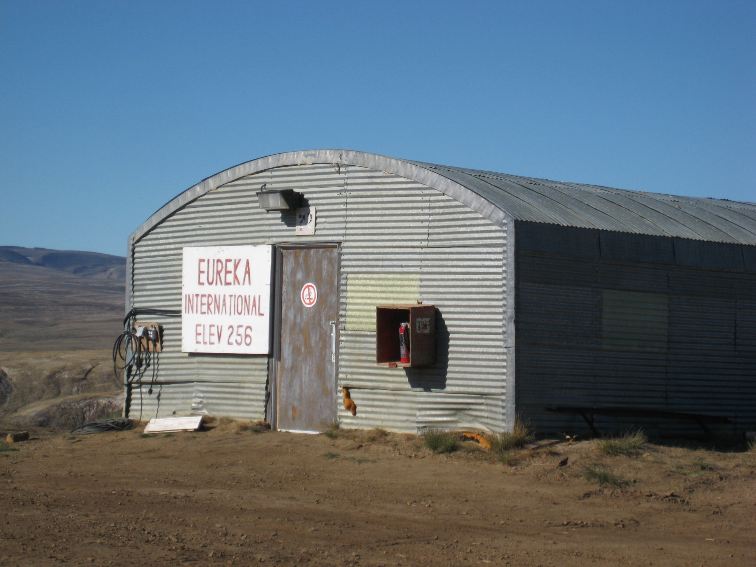 Eureka International